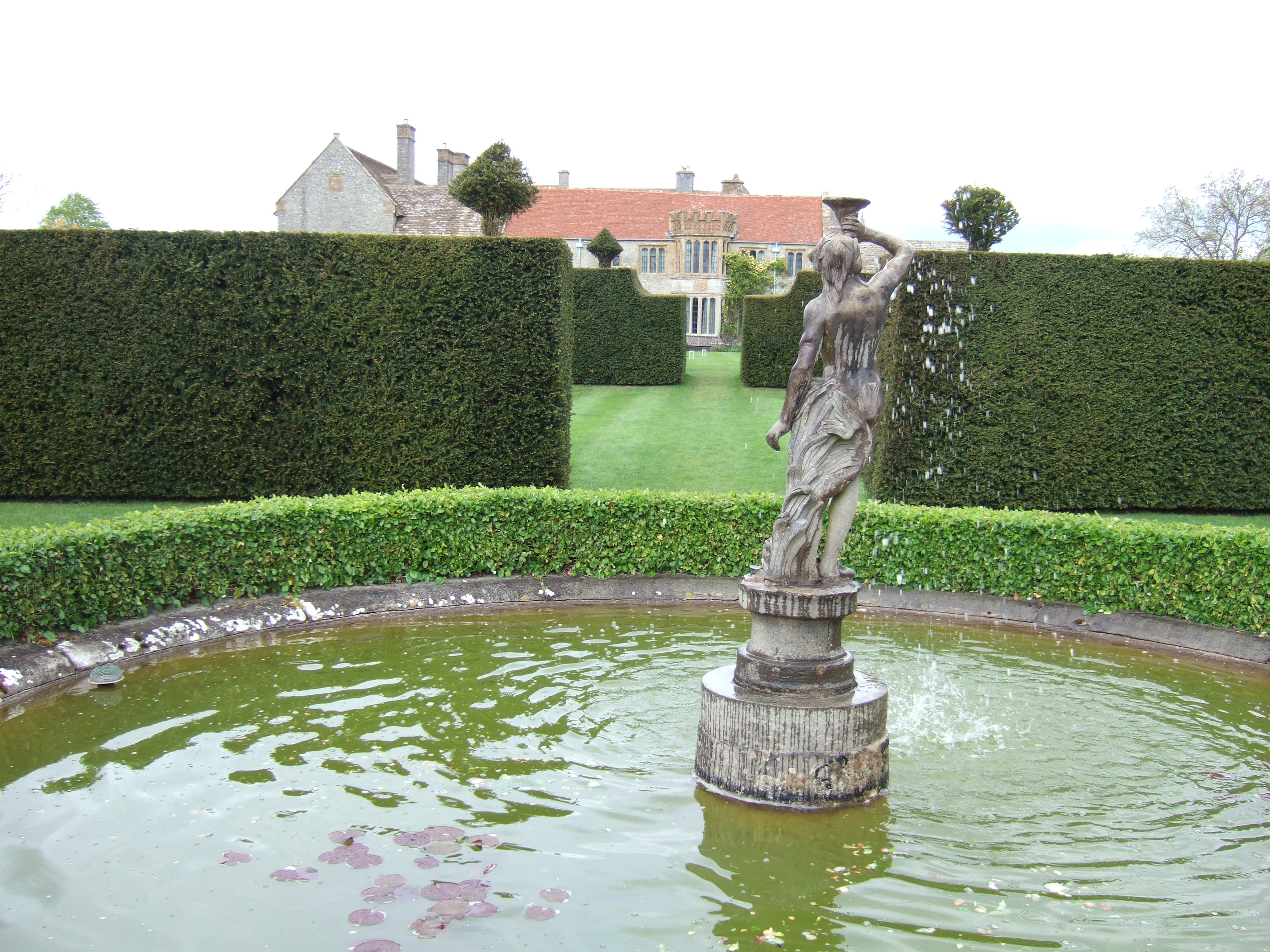 Lytes Cary vista from the Pond Garden, looking through the Seat Garden and Croquet Lawn to the house